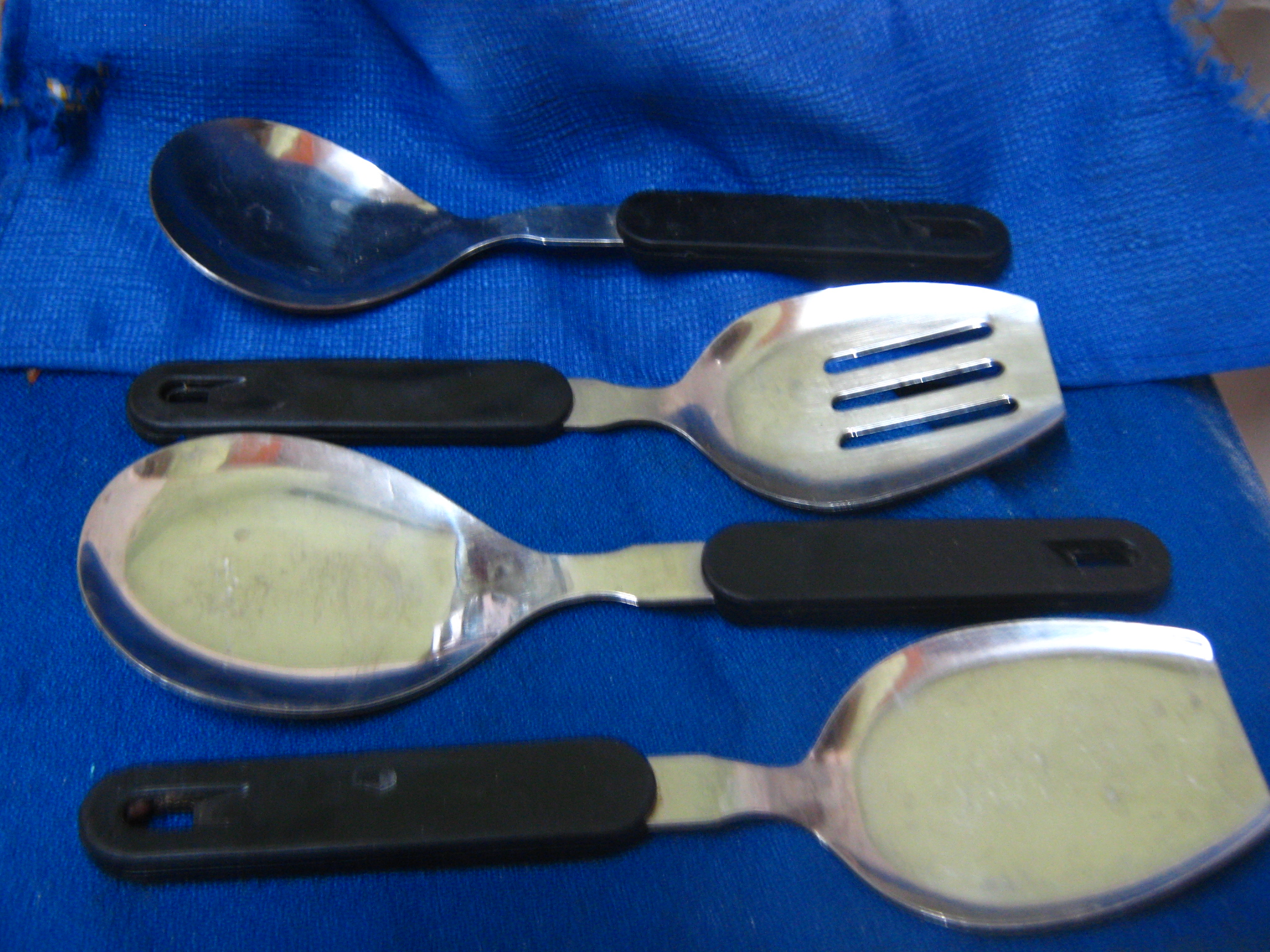 utensils used in Indian kitchen.